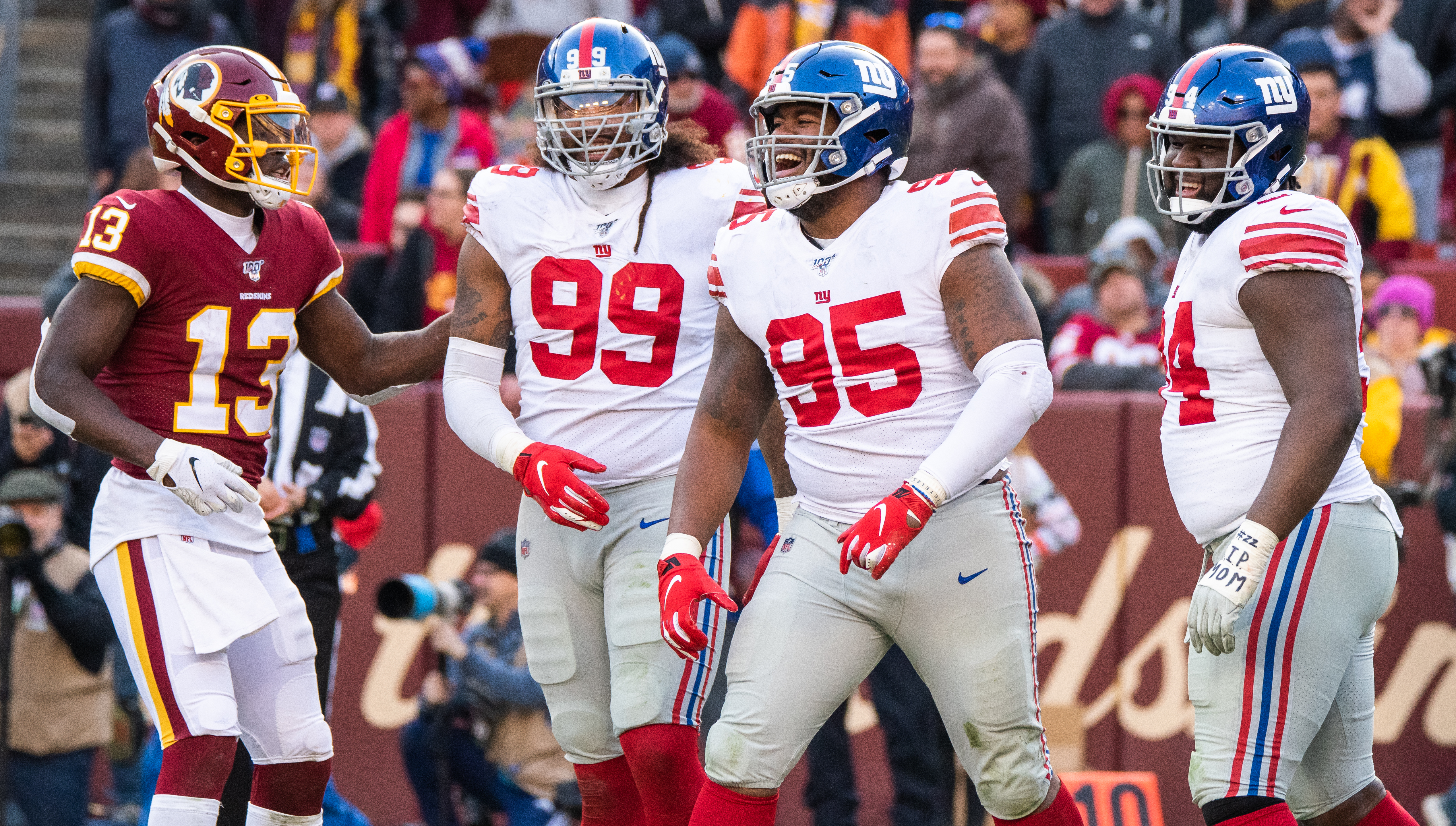 In 2019